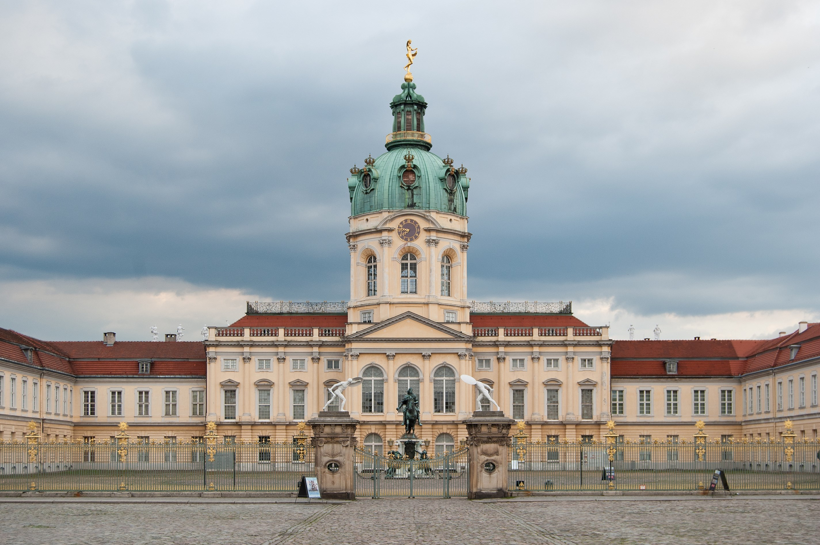 Berlin – Charlottenburg Palace This is a photograph of an architectural monument. This photograph was taken with a Nikon D3000